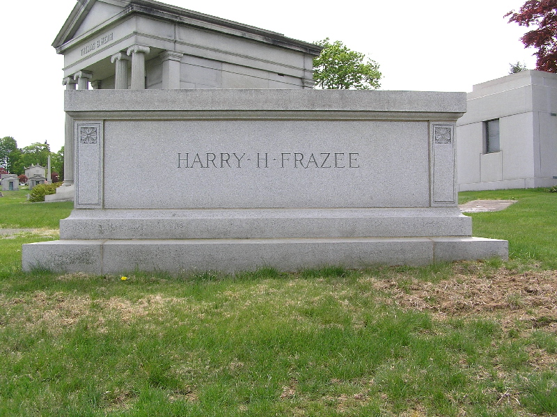 I took this photograph of Harry Frazee's grave in Kensico Cemetery on May 3, 2006. —GNU Free Documentation License